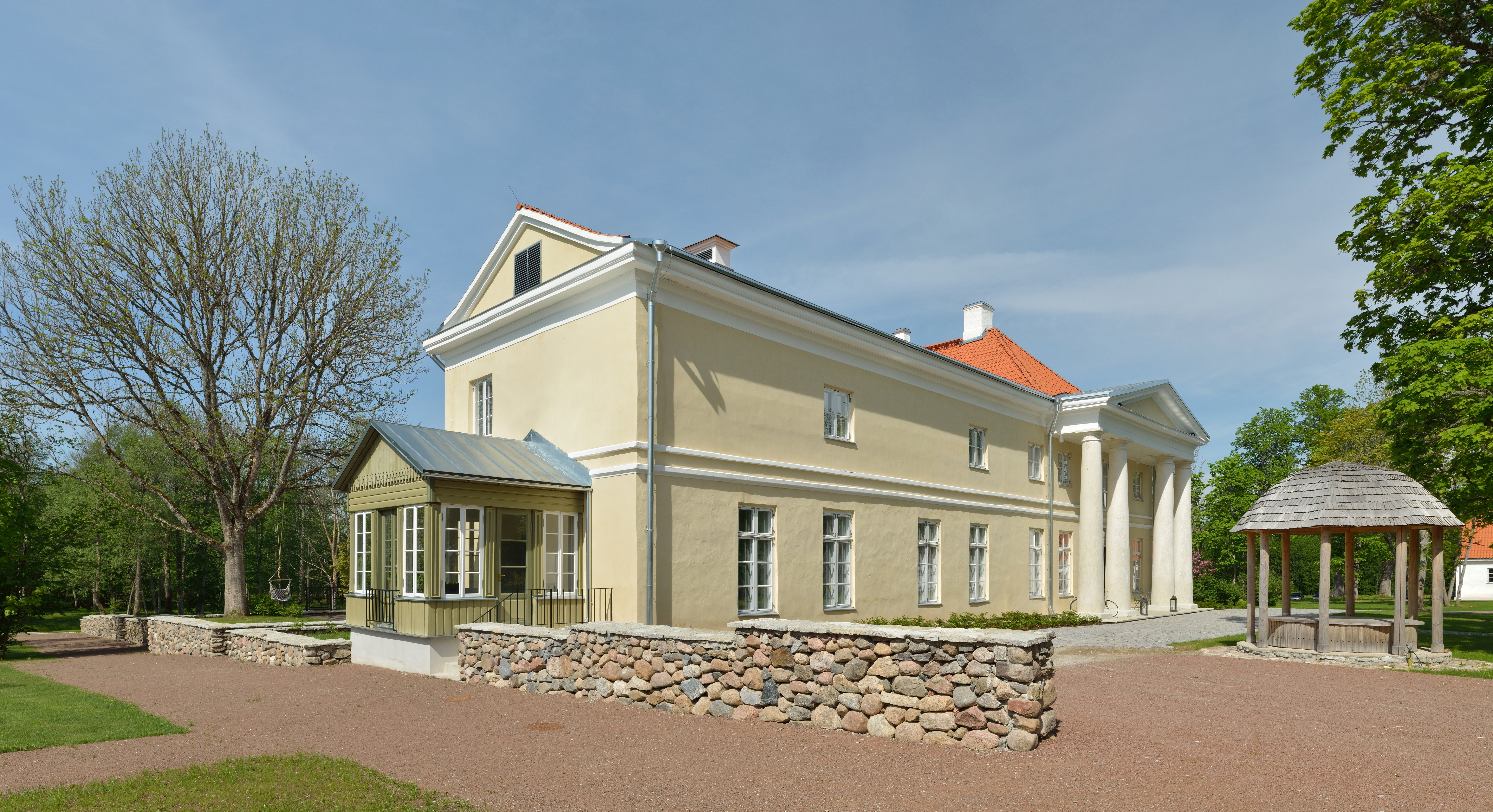 Kõue-Triigi manor main building